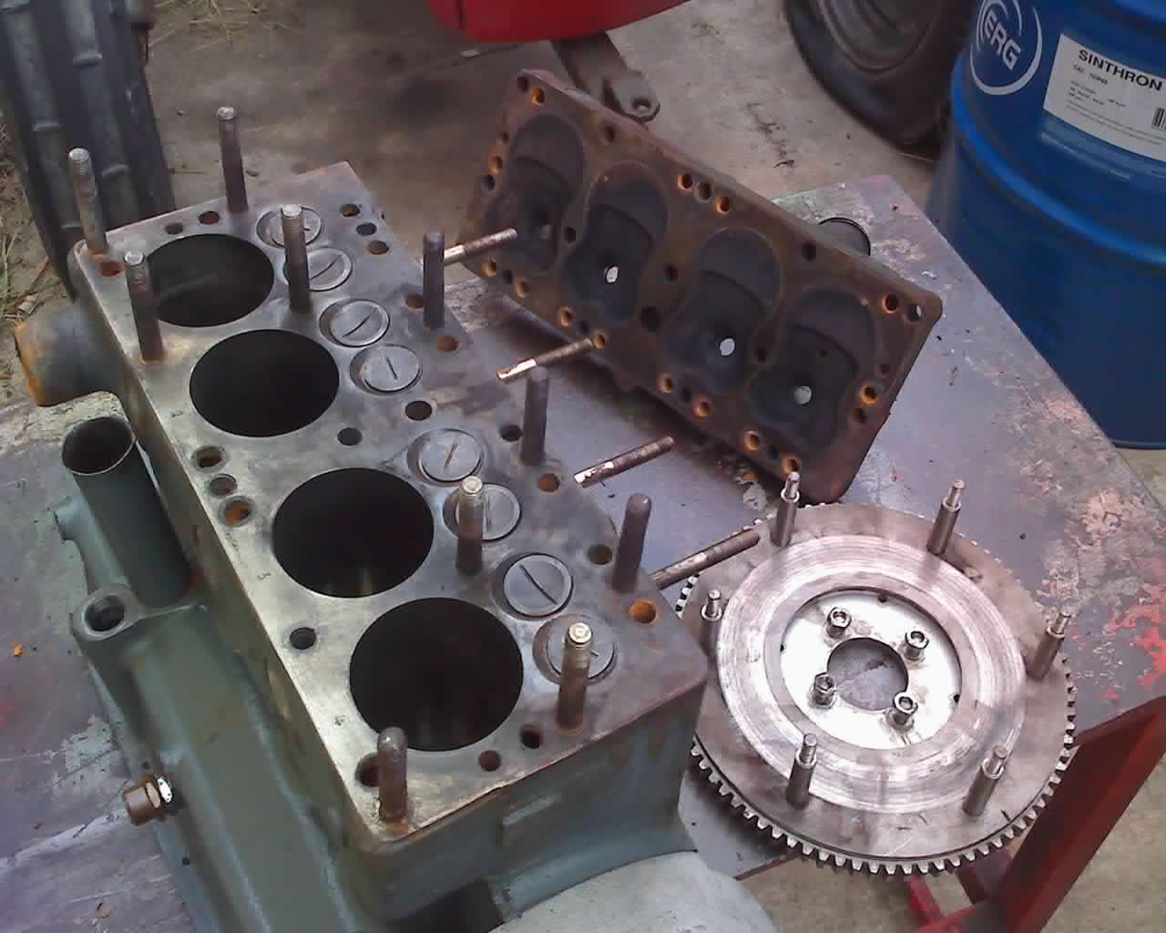 Sidevalve engine with head, from Fiat Balilla (courtesy Mr. Massimiliano Pederzani - PSF Club)